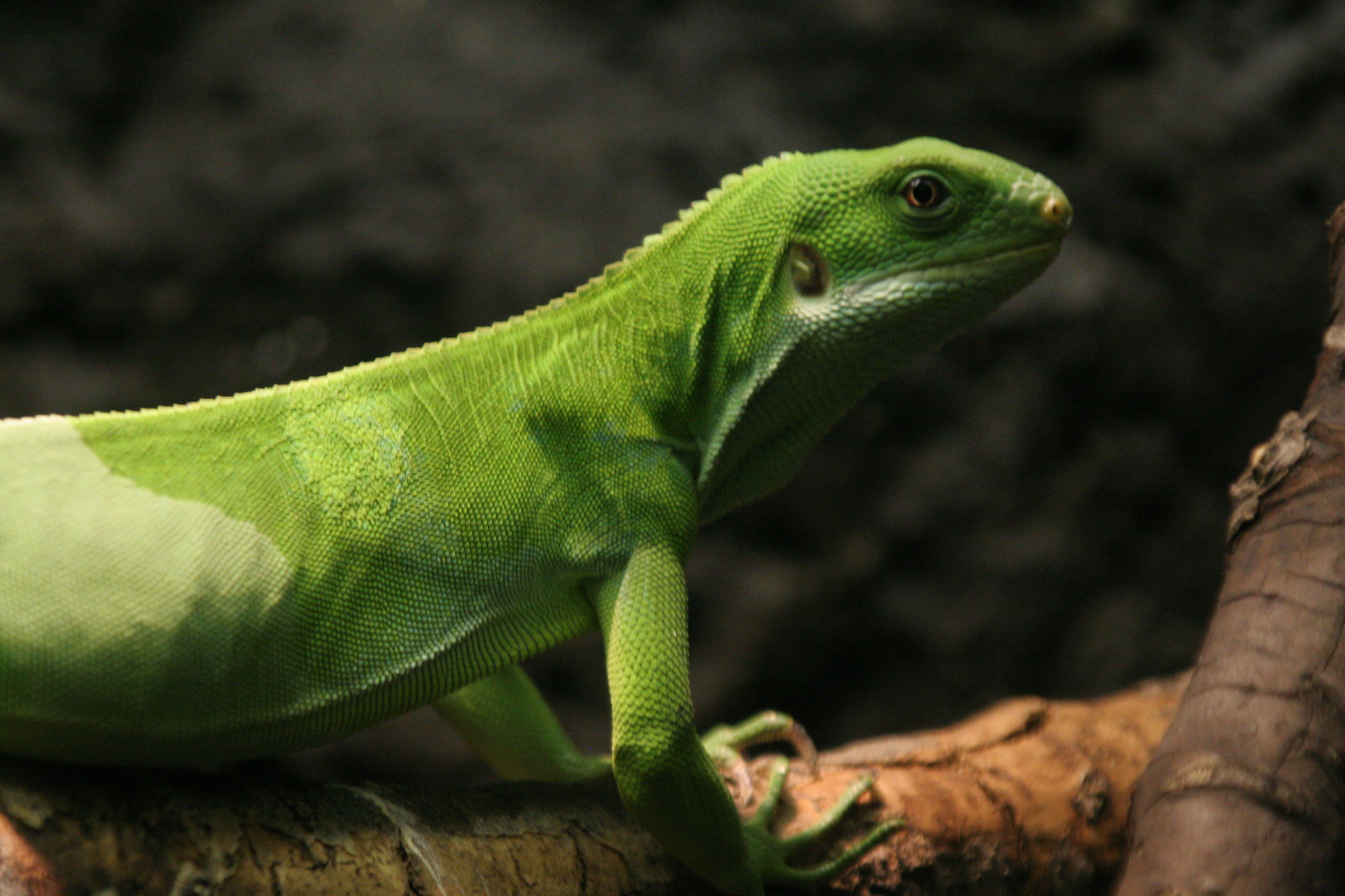 Fiji Banded Iguana, St. Louis Zoo, 12/27/2005, Robert Lawton (self)